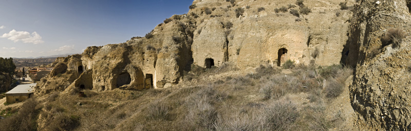 Buildings in caves in Purullena, in the Guadix-Purullena environment, Hoya de Guadix, Baza y Los Vélez, Granada, Spain